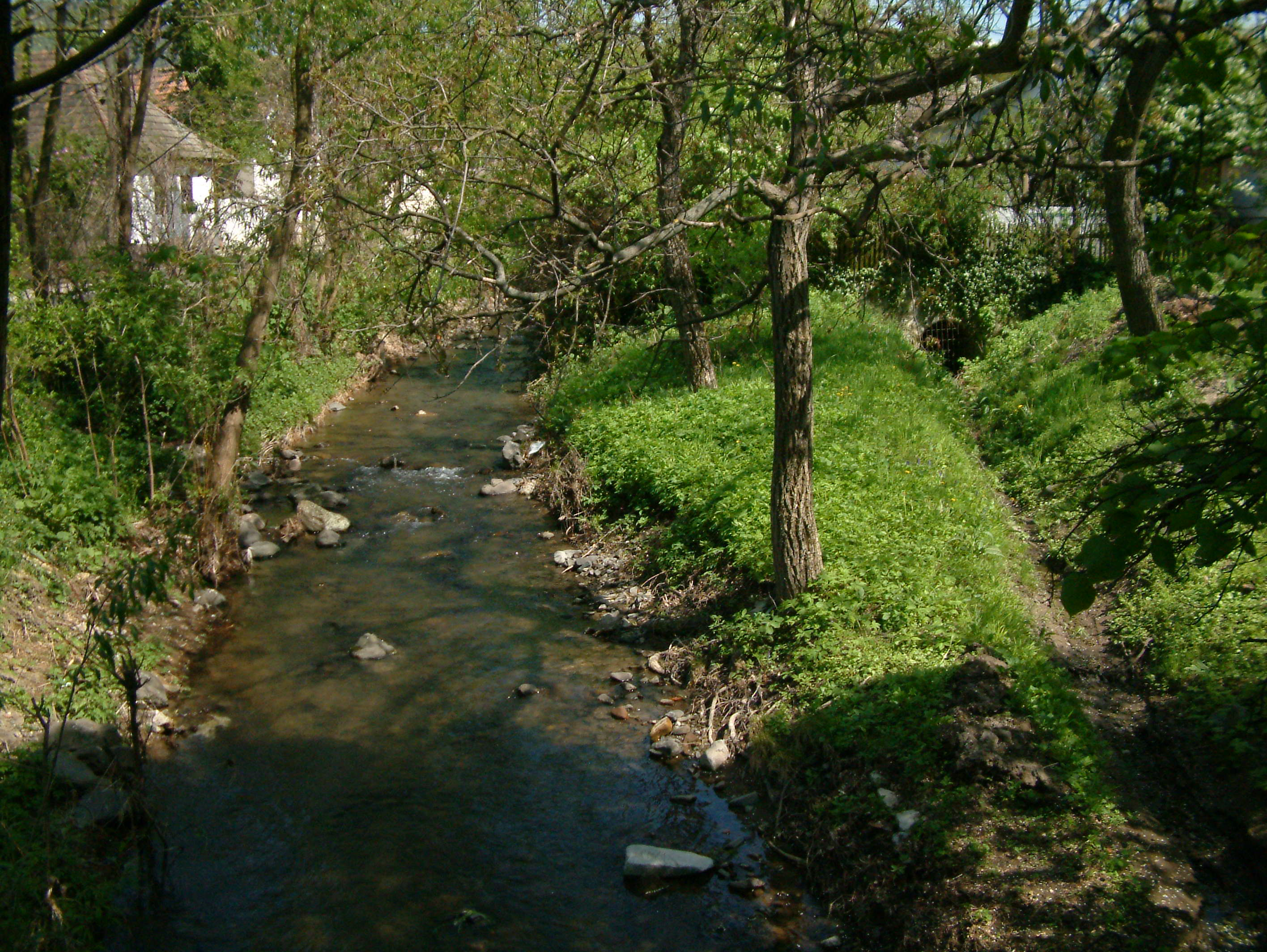 Börzsöny Stream in Nagybörzsöny, with the lower channel of the watermill on the right side